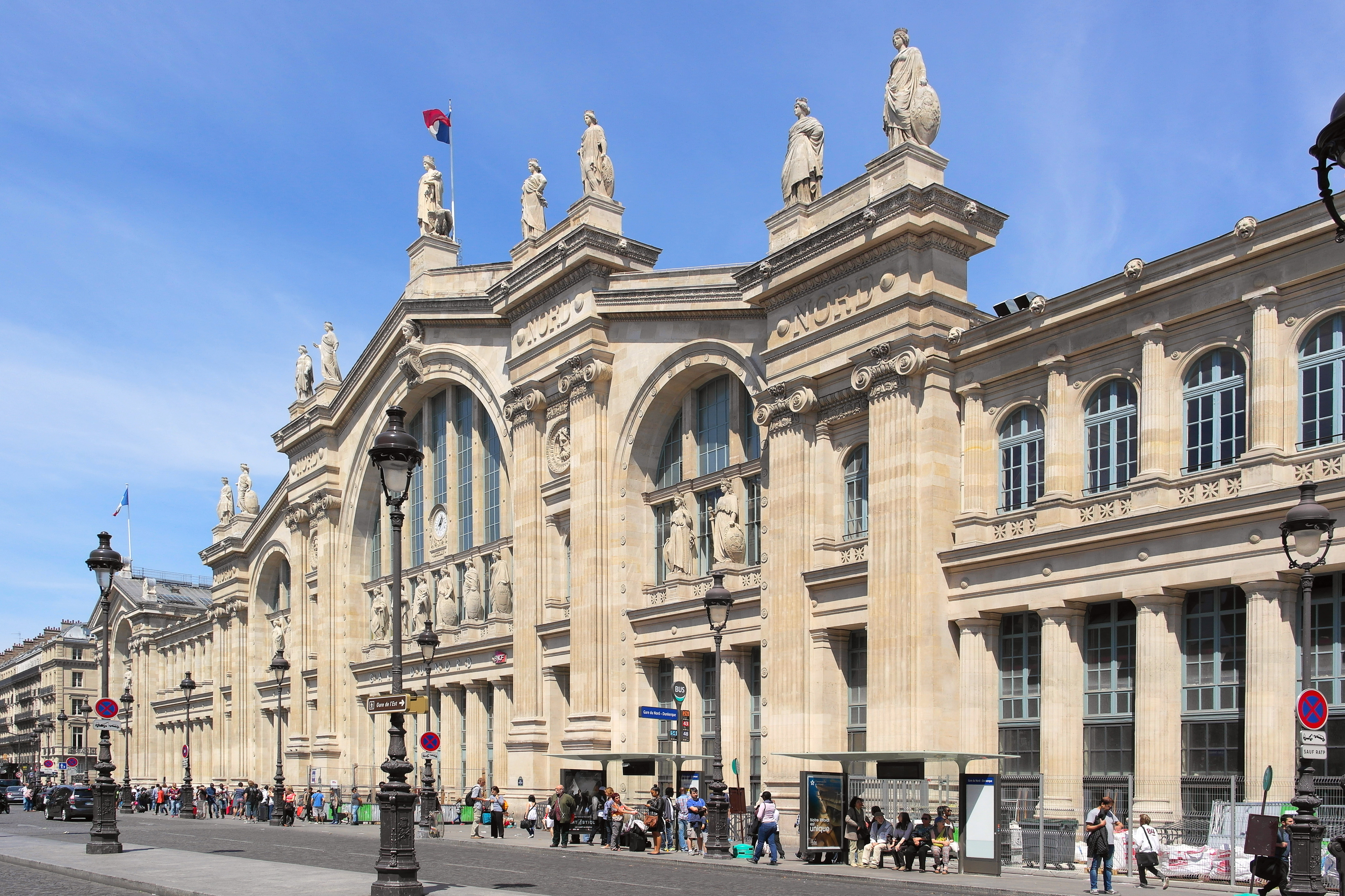 Facade of Gare de Paris-Nord